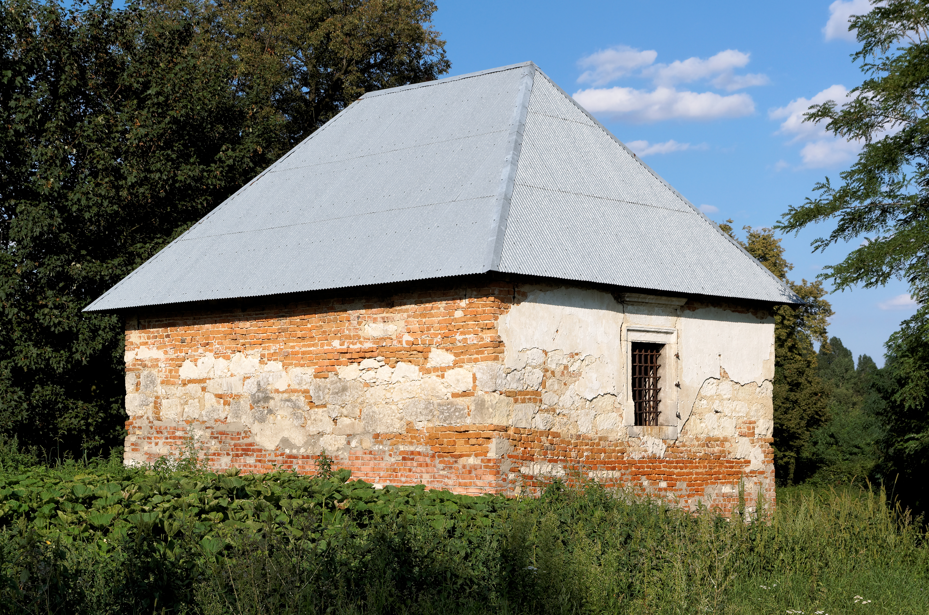 Arian church in Kolosy